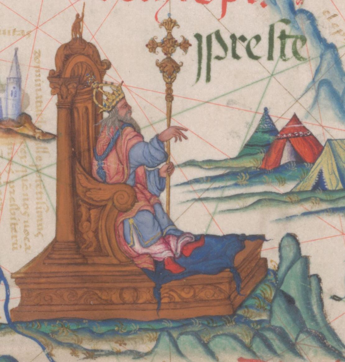 Image of Prester John, enthroned, in a map of East Africa in Queen Mary's Atlas, Diogo Homem, 1558.